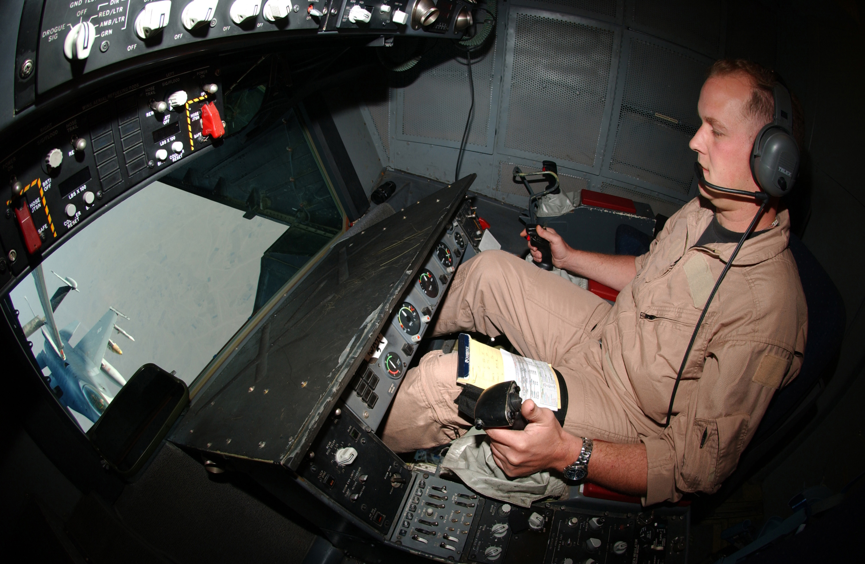 Air Force Staff Sgt. David Megill controls the boom during an in-flight refueling of an F-16 Falcon from a KC-10 Extender in the sky over Iraq on Oct. 11, 2004. Megill is a boom operator with the 908th Expeditionary Air Refueling Squadron.